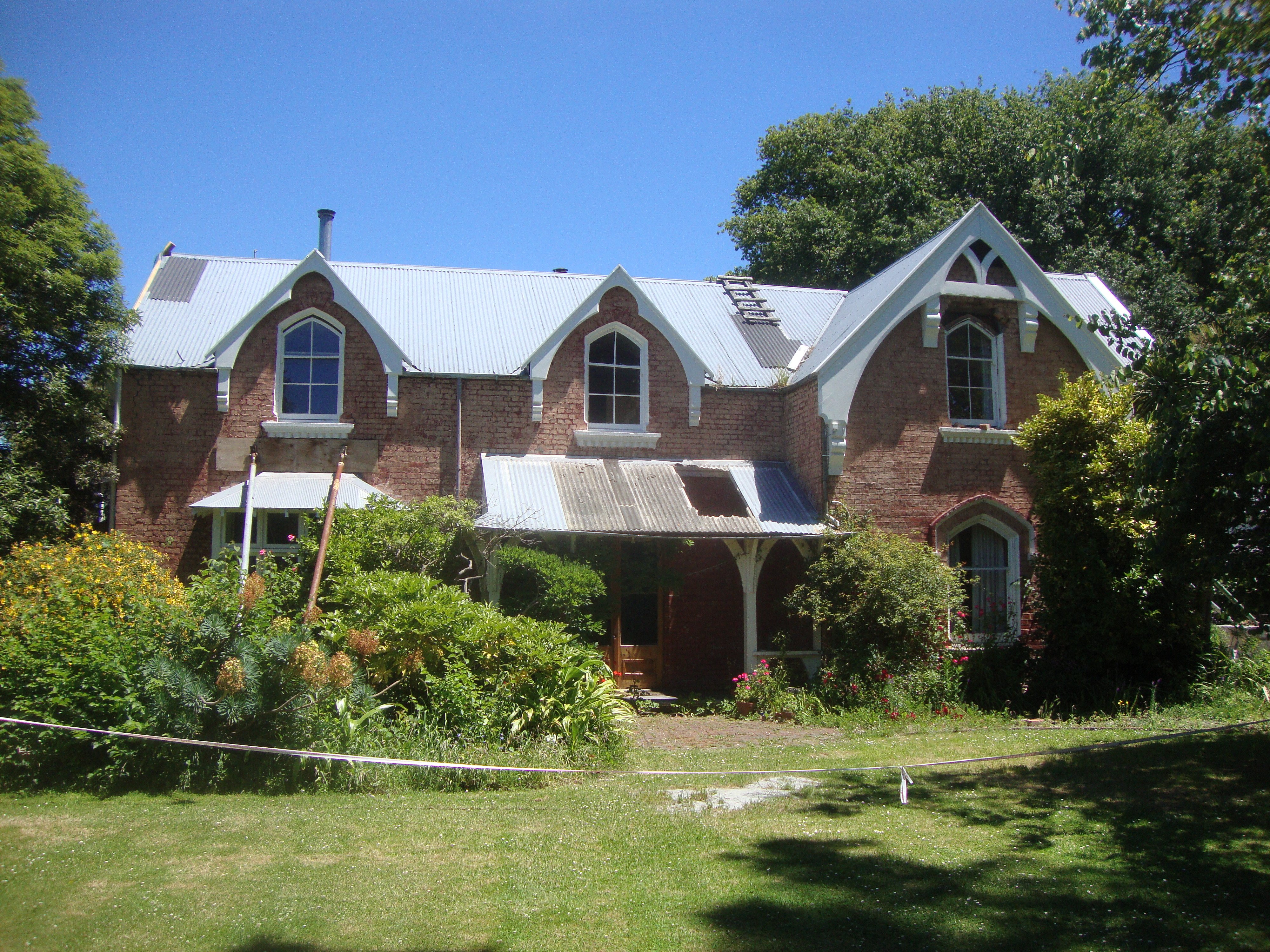 Chippenham Lodge with significant damage from the February 2011 Christchurch earthquake.